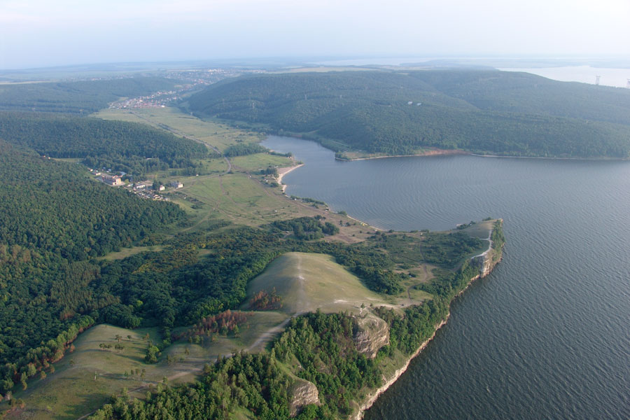 Molodesky kurgan